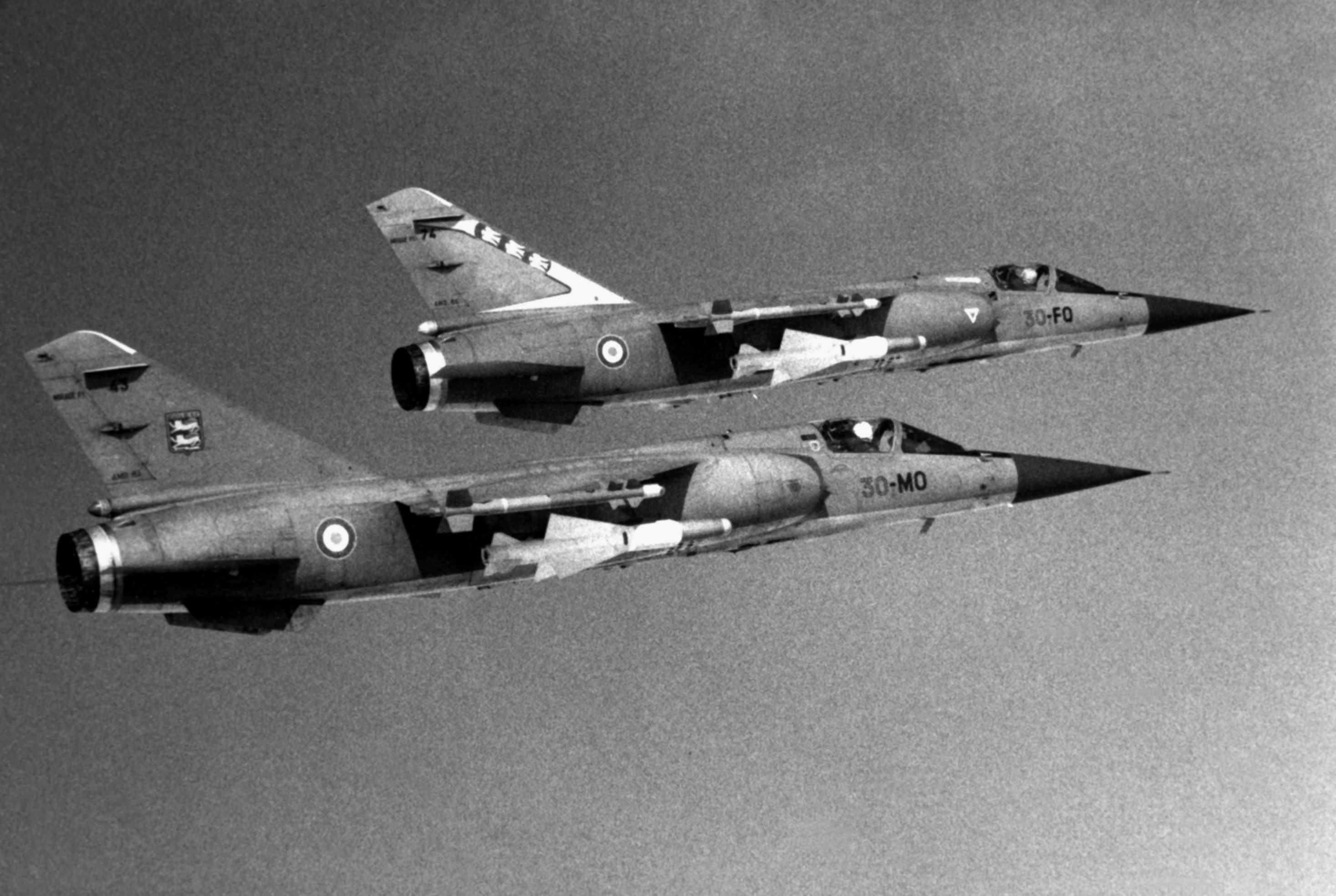 Two Armée de l'air (French air force) Dassault Mirage F1C aircraft armed with Matra 550 Magic air-to-air missiles mounted on the wing tips and Matra R.530 air-to-air missiles mounted under the fuselage in flight on 31 May 1986. The aircraft nearer to the camera was assigend to Escadron de Chasse 2/30 Normandie-Niemen (30-MO), the one in the background to Escadron de Chasse 3/30 Lorraine (30-FO). Both squadrons were based at Base aérienne 112 Reims-Champagne, France.